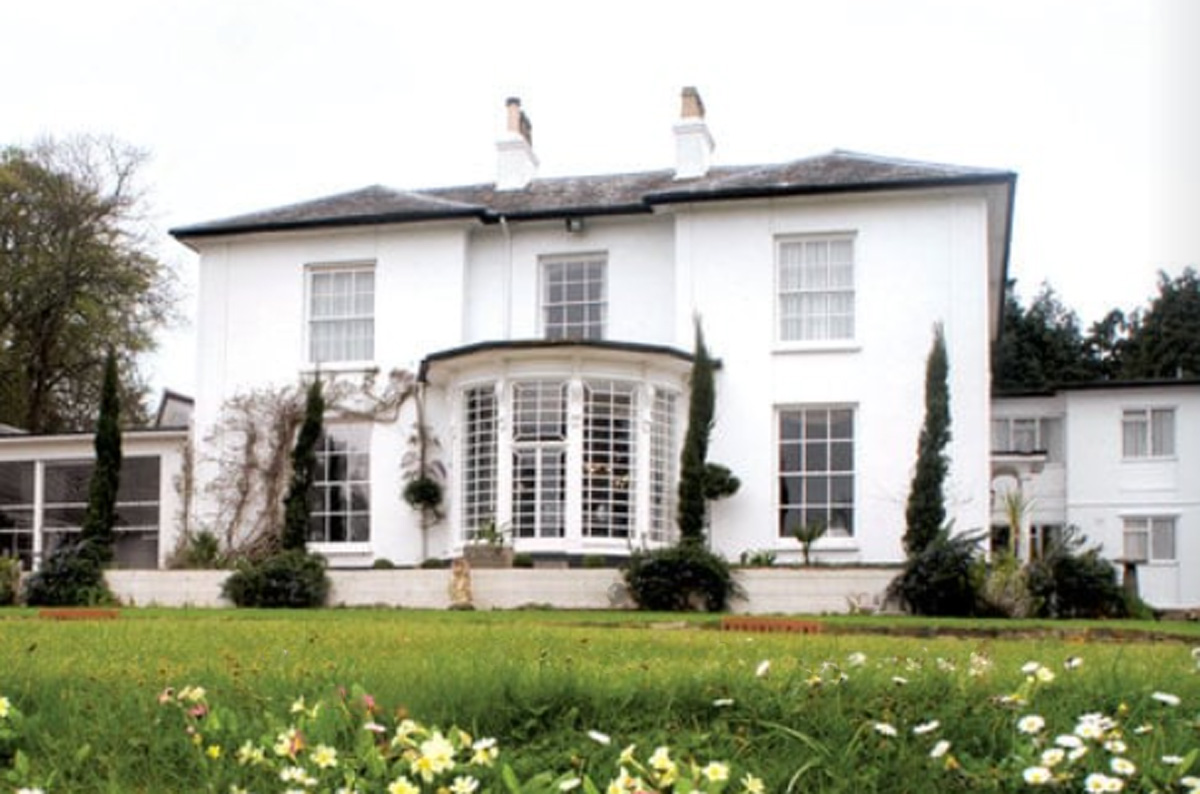 Penmere Manor, Falmouth, Cornwell